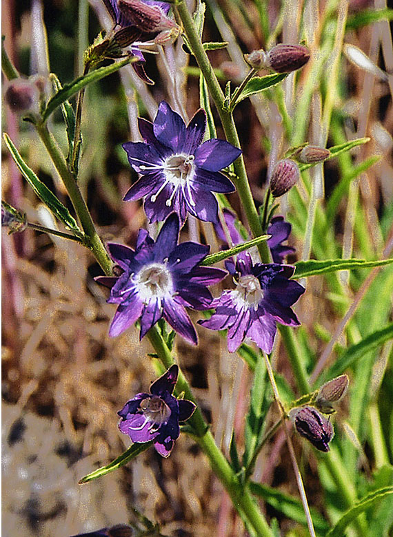 Known in central Chile as Estrella Azul. In context at